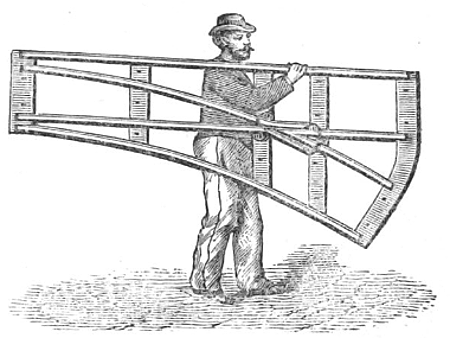 Installing Decauville System.